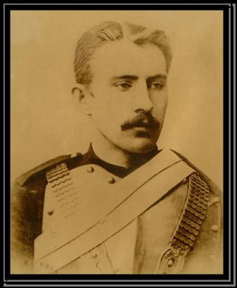 Portrait of Patrick Michael Kelly in his First Lifeguards uniform taken in South Africa in 1900